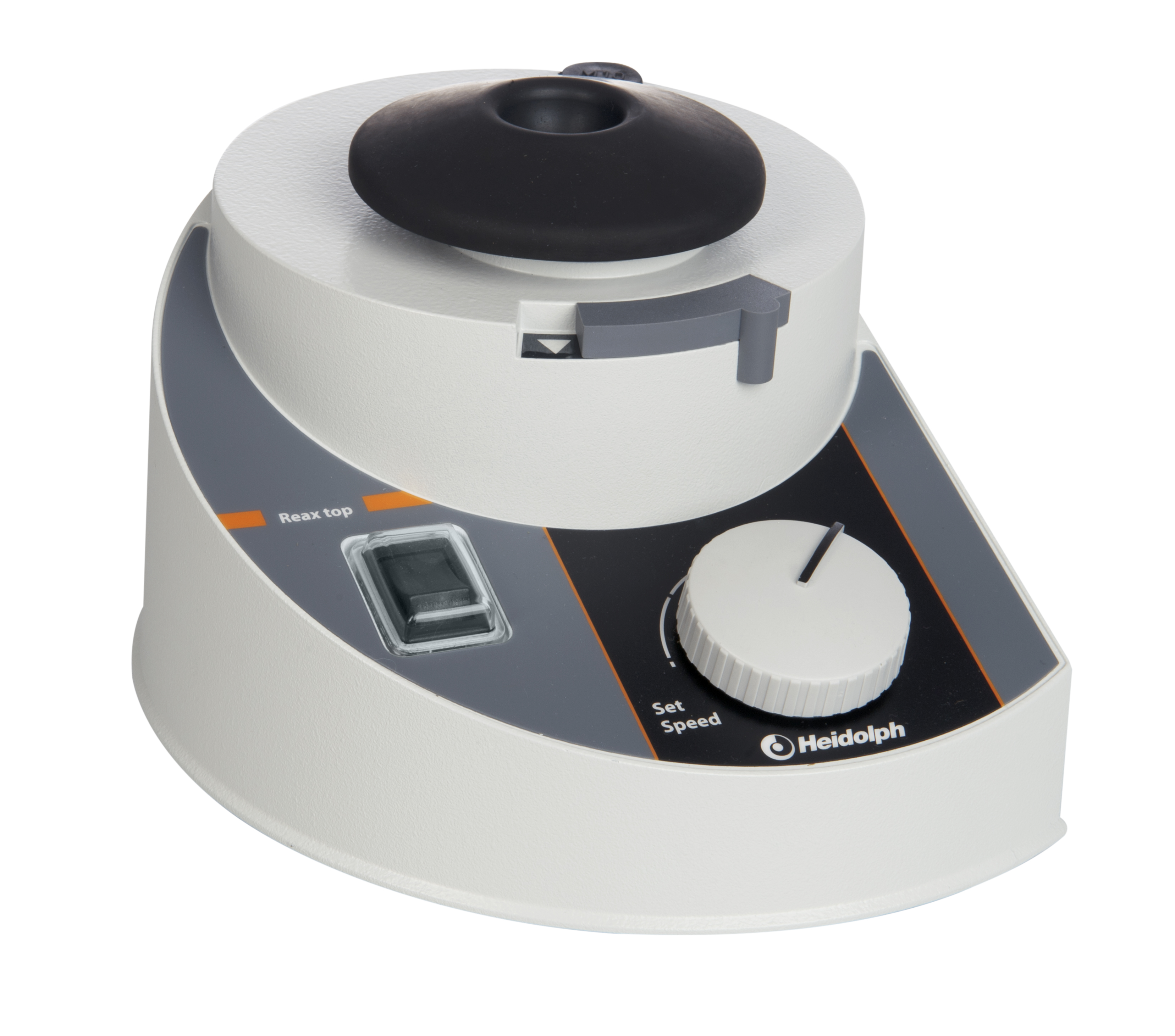 Vortexer